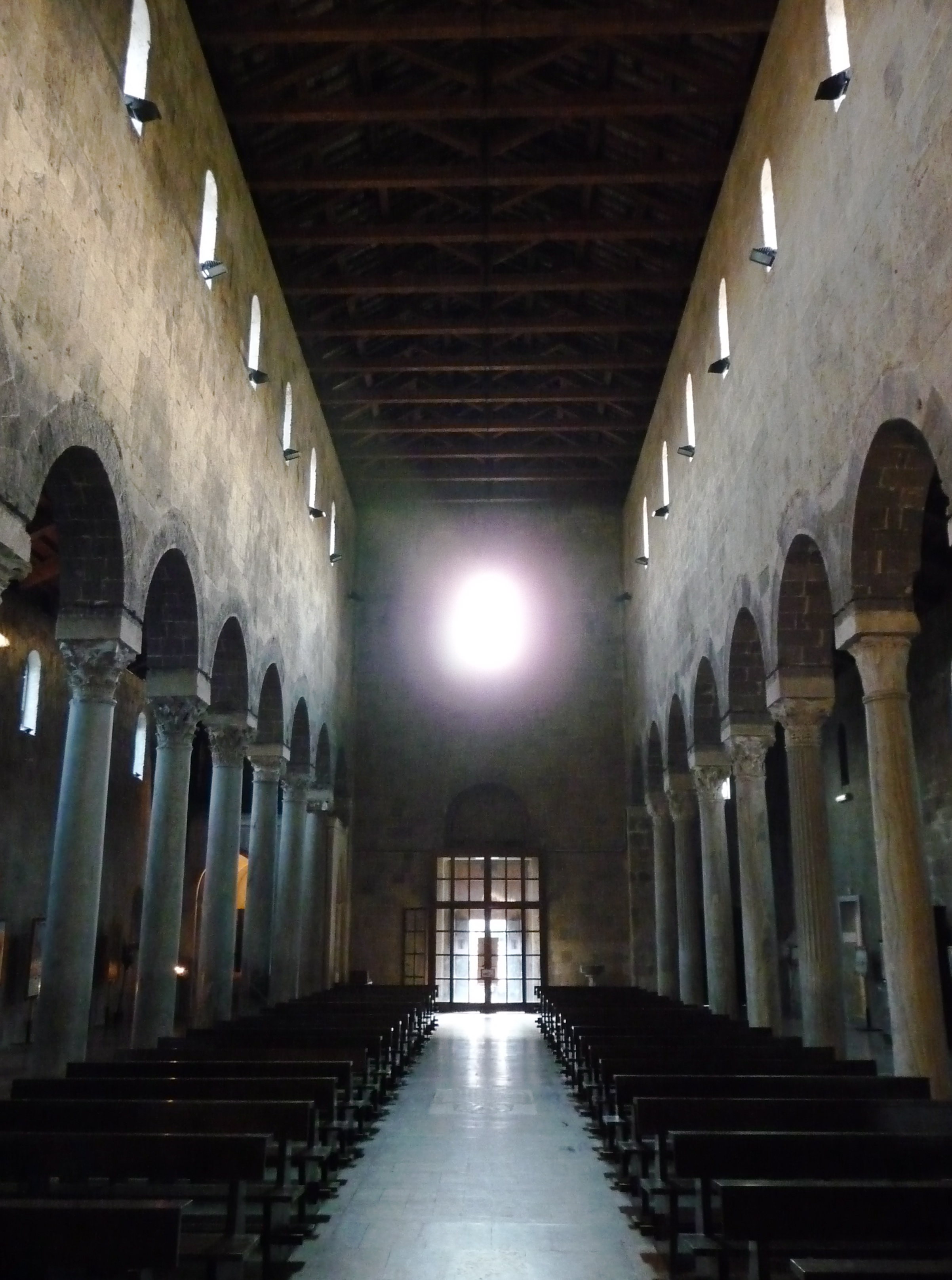 Cathedral of San Michele Arcangelo in Casertavecchia, province of Caserta.